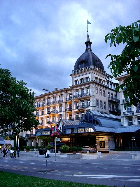 Interlaken